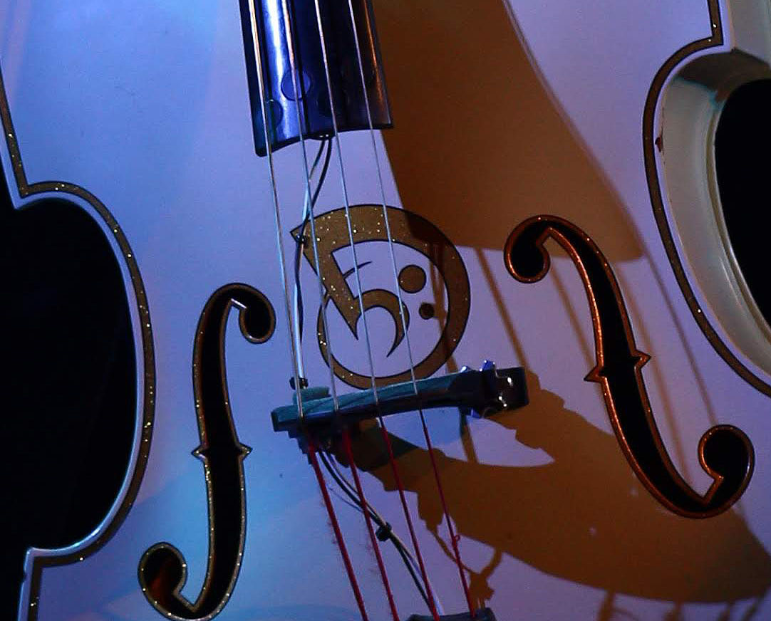 Djordje Stijepovic bass logo